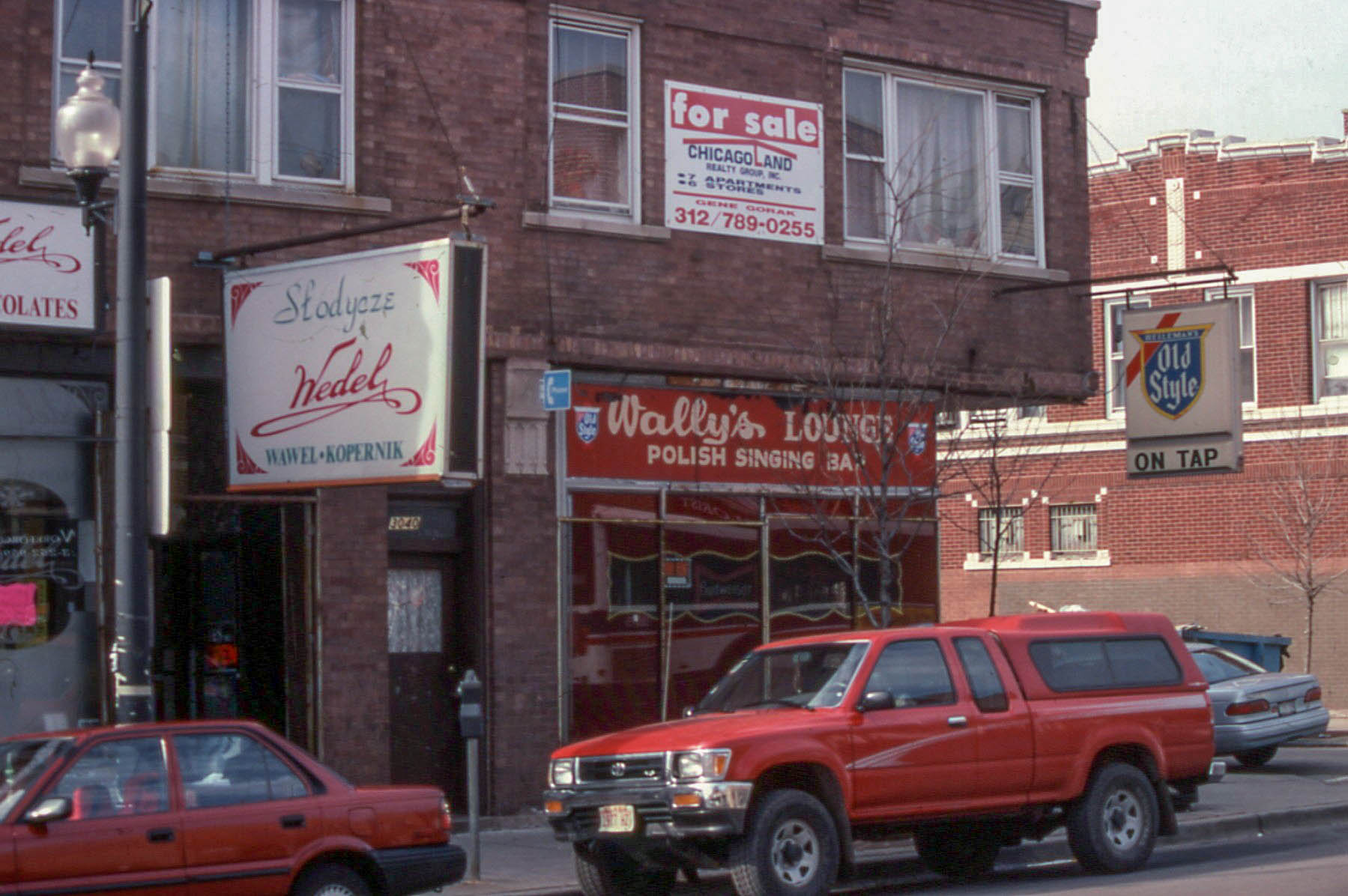 19990213 53 along Milwaukee Ave. Chicago